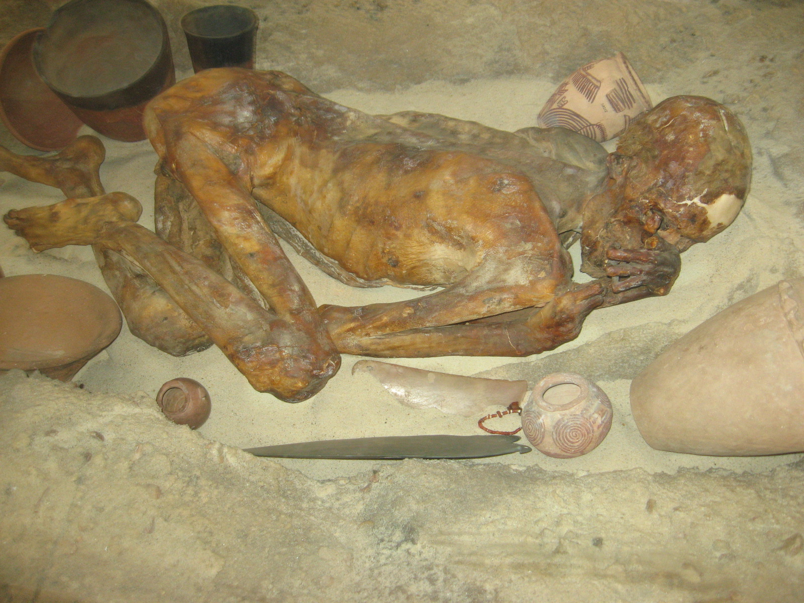 A mummified body of an Pre-dynastic Egyptian man in the British Museum. Photograph taken by me January 5 2008.